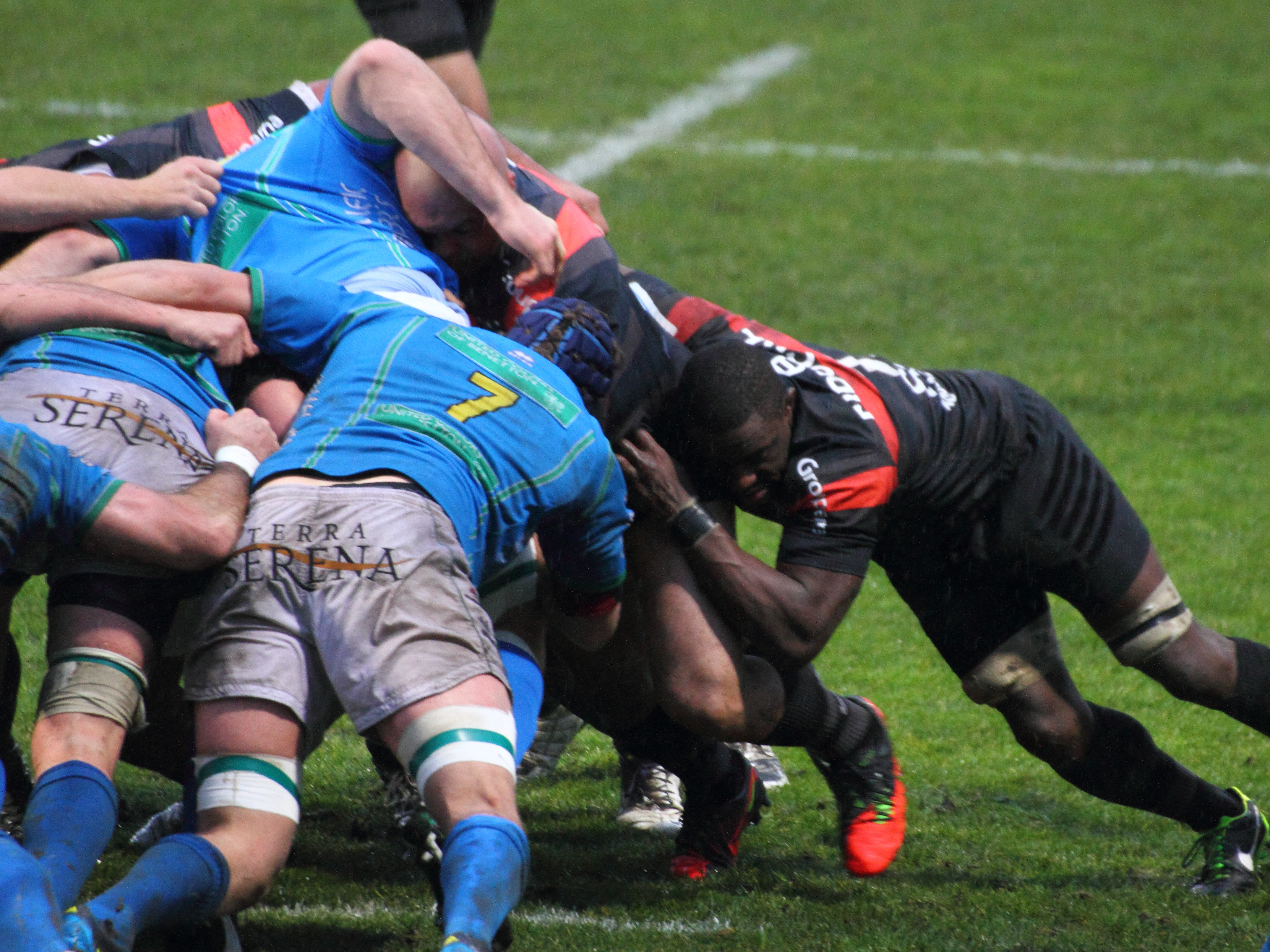 Heineken Cup — 13 January 2013, Stade Ernest-Wallon. Match between: Stade toulousain — Benetton Rugby Treviso